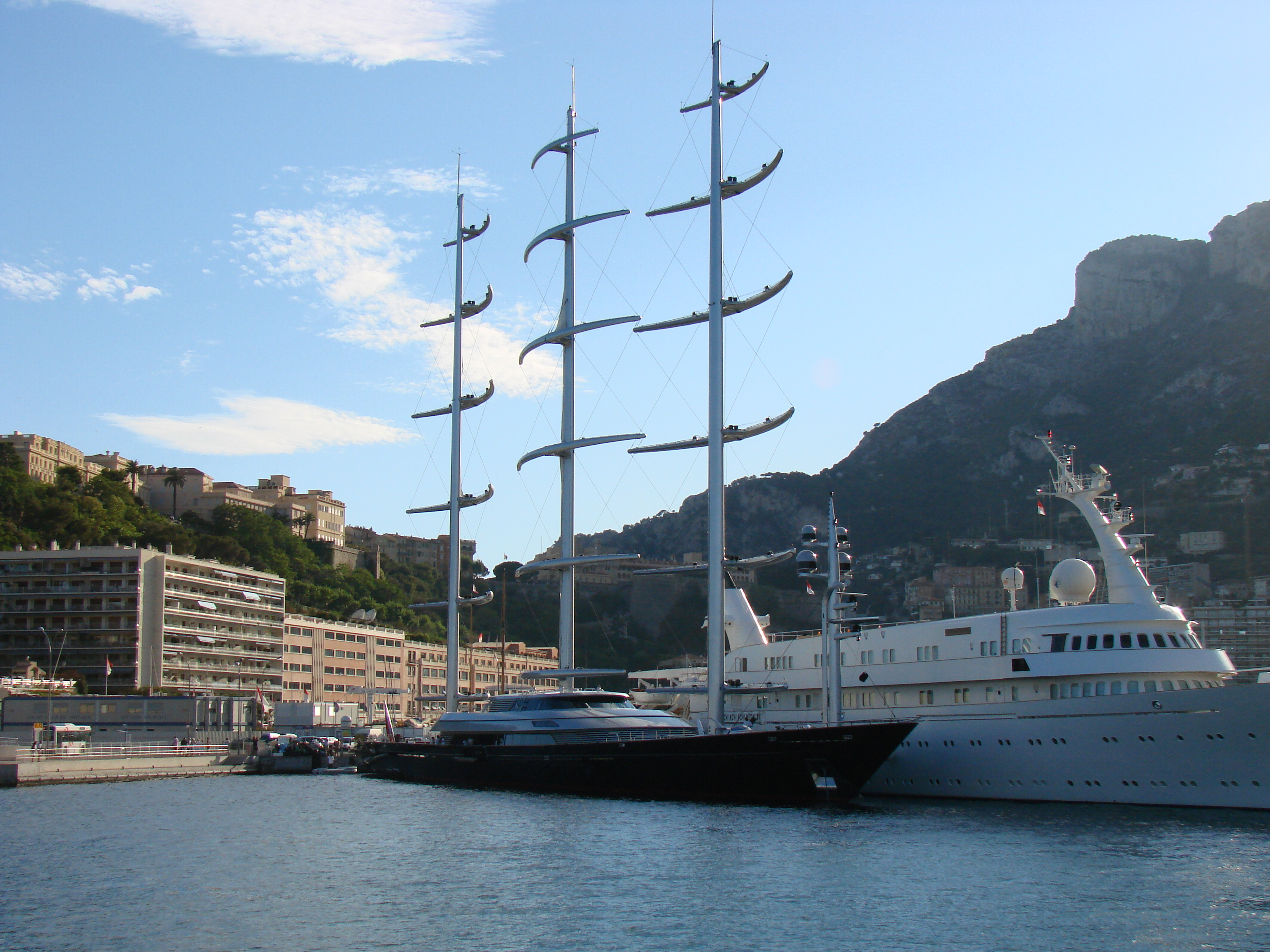 The Maltese Falcon